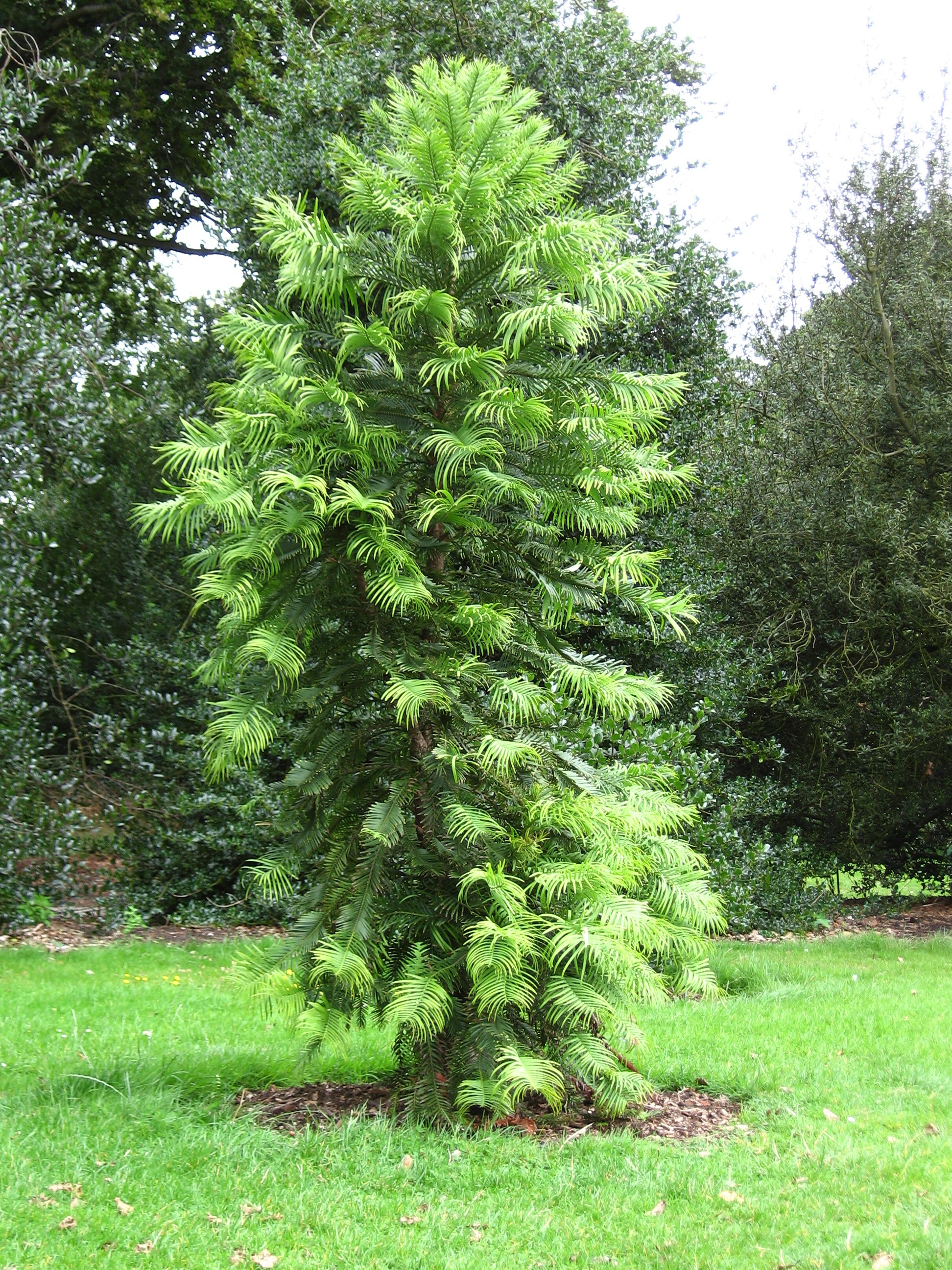 Wollemia nobilis in Kew Gardens (London), next to evolution house. Picture taken mid-august 2008.